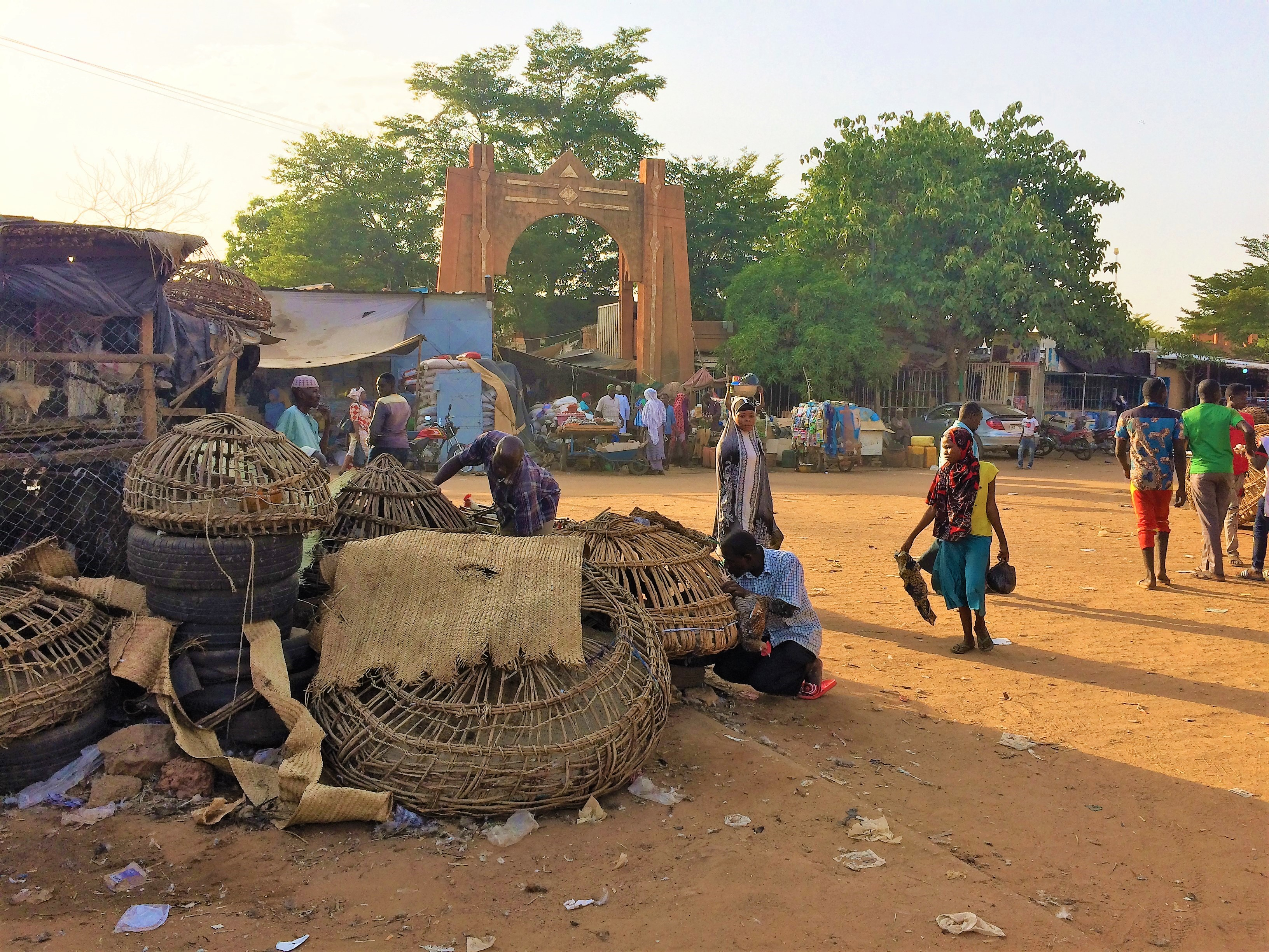 Southeastern entrance gate to the Nouveau Marché (New Market), seen from the Rue du Nigéria (Rue NM-4) in the 'Nouveau Marché' neighborhood in Niamey, Niger.